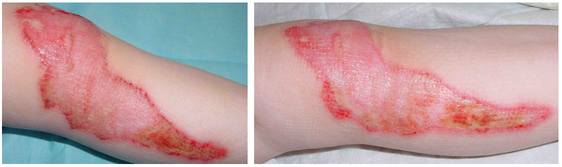 Example of rapid improvement with wIRA in a severely burned child (Study Kassel). Left: 1 day after the burn, right: only 30 hours later than shown on the left side.